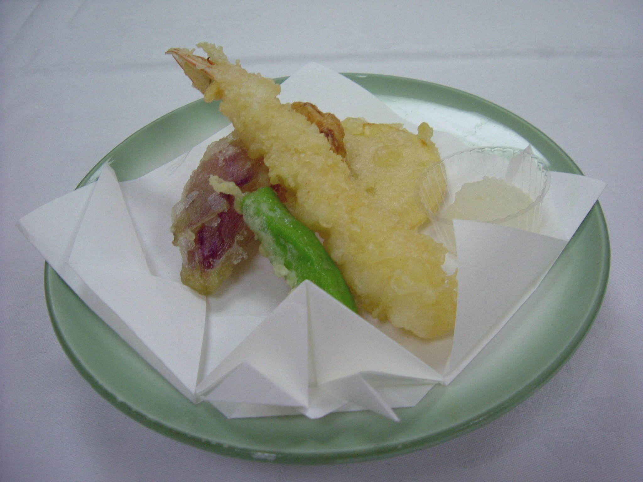 Shrimp tempura in Kaiseki cuisine